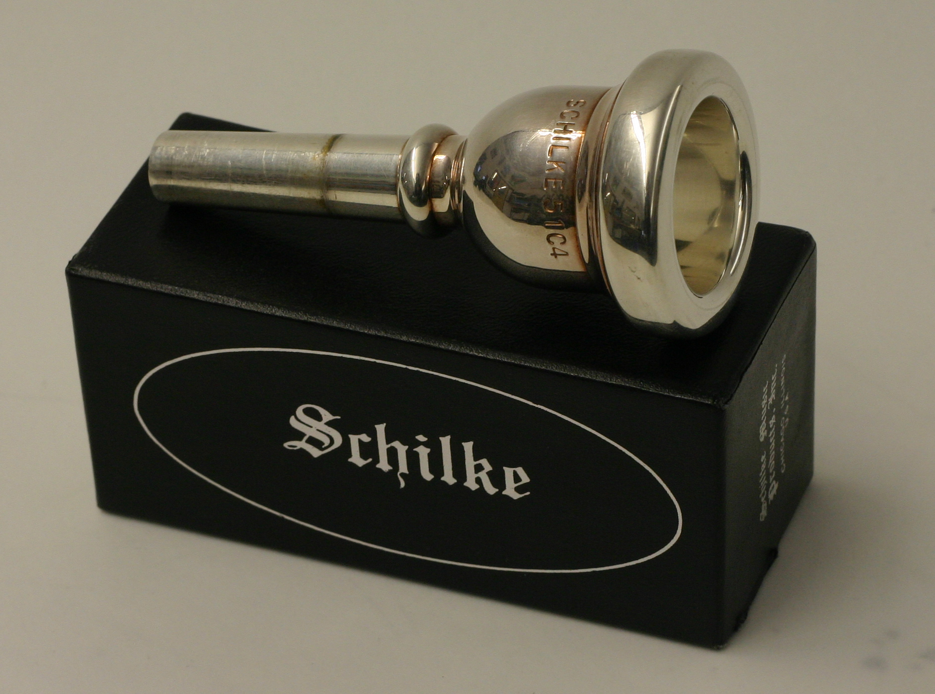 A Schilke 51C4 Trombone Mouthpiece